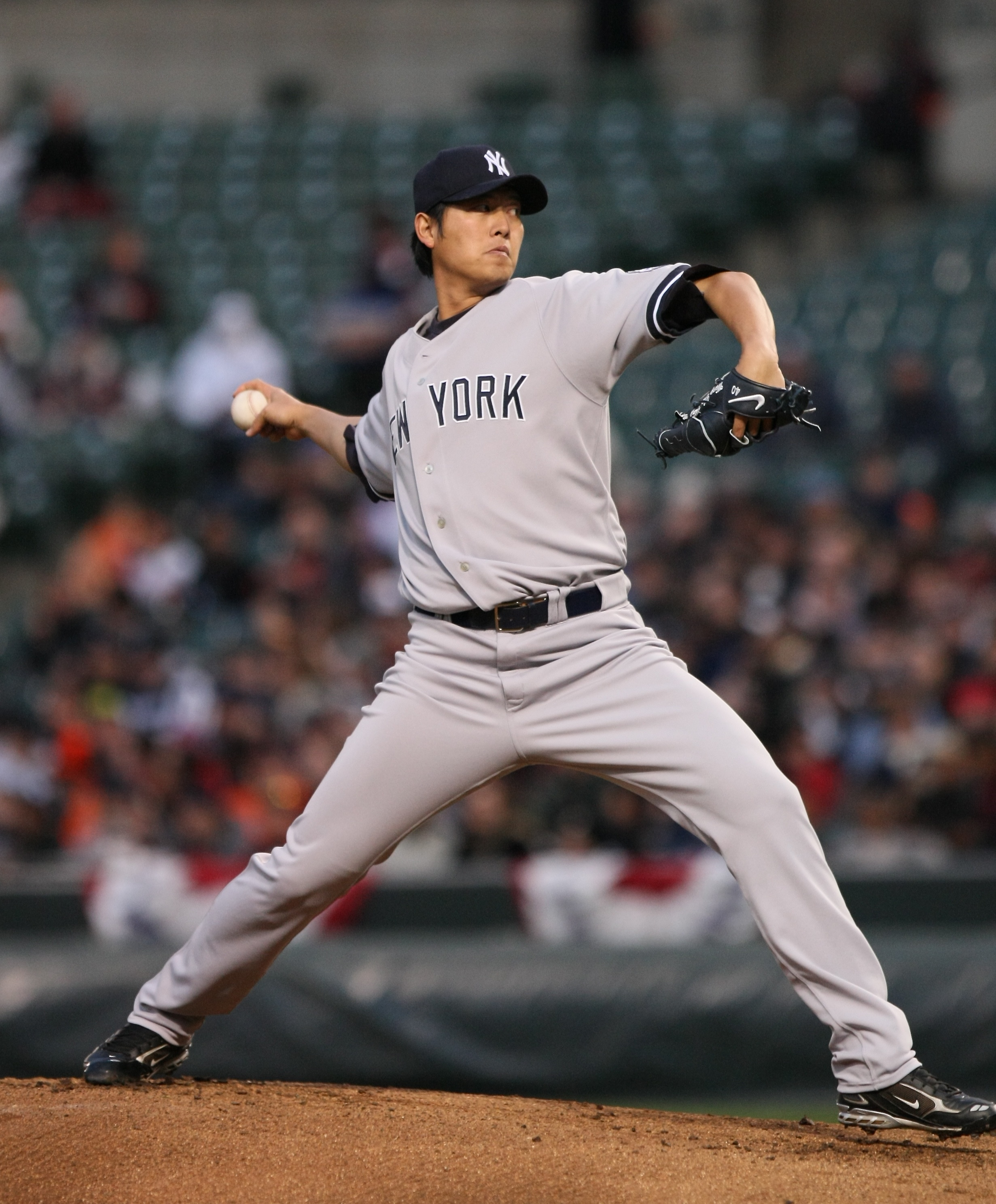 Chien-Ming Wang, Taiwanese pitcher for the New York Yankees Bân-lâm-gú: Ông Kiàn-bîn, tī New York Yankees ê Tâi-uân tâu-tshiú. 王建民，佇紐約洋基隊的台灣投手。